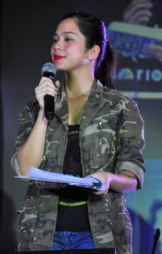 Philippine actress Saab Magalona at the Rock For a Fully Abled Nation benefit concert in Eastwood City, Manila, Philippines.